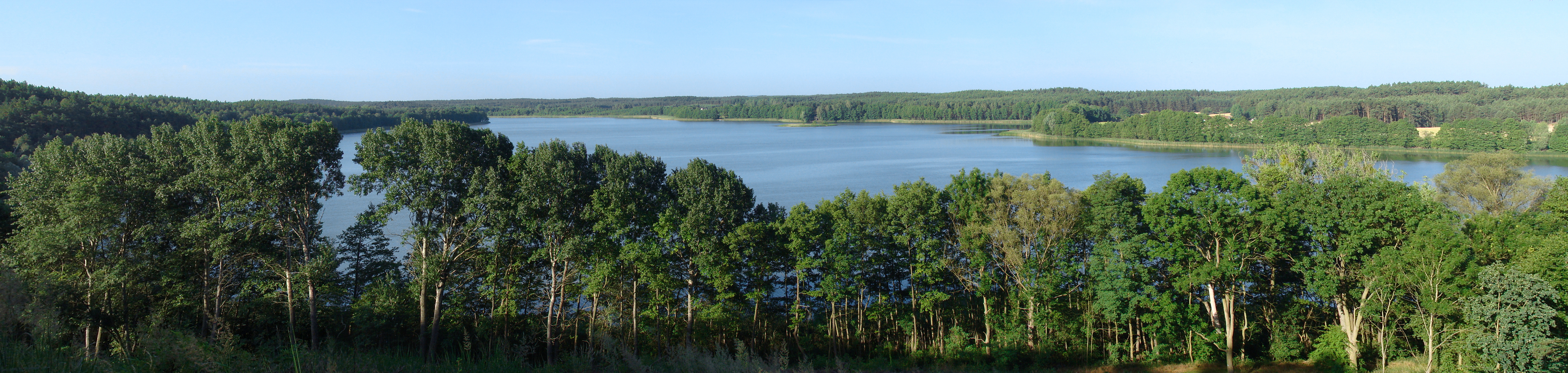 Chłop Lake in Pszczew Landscape Park, Poland.